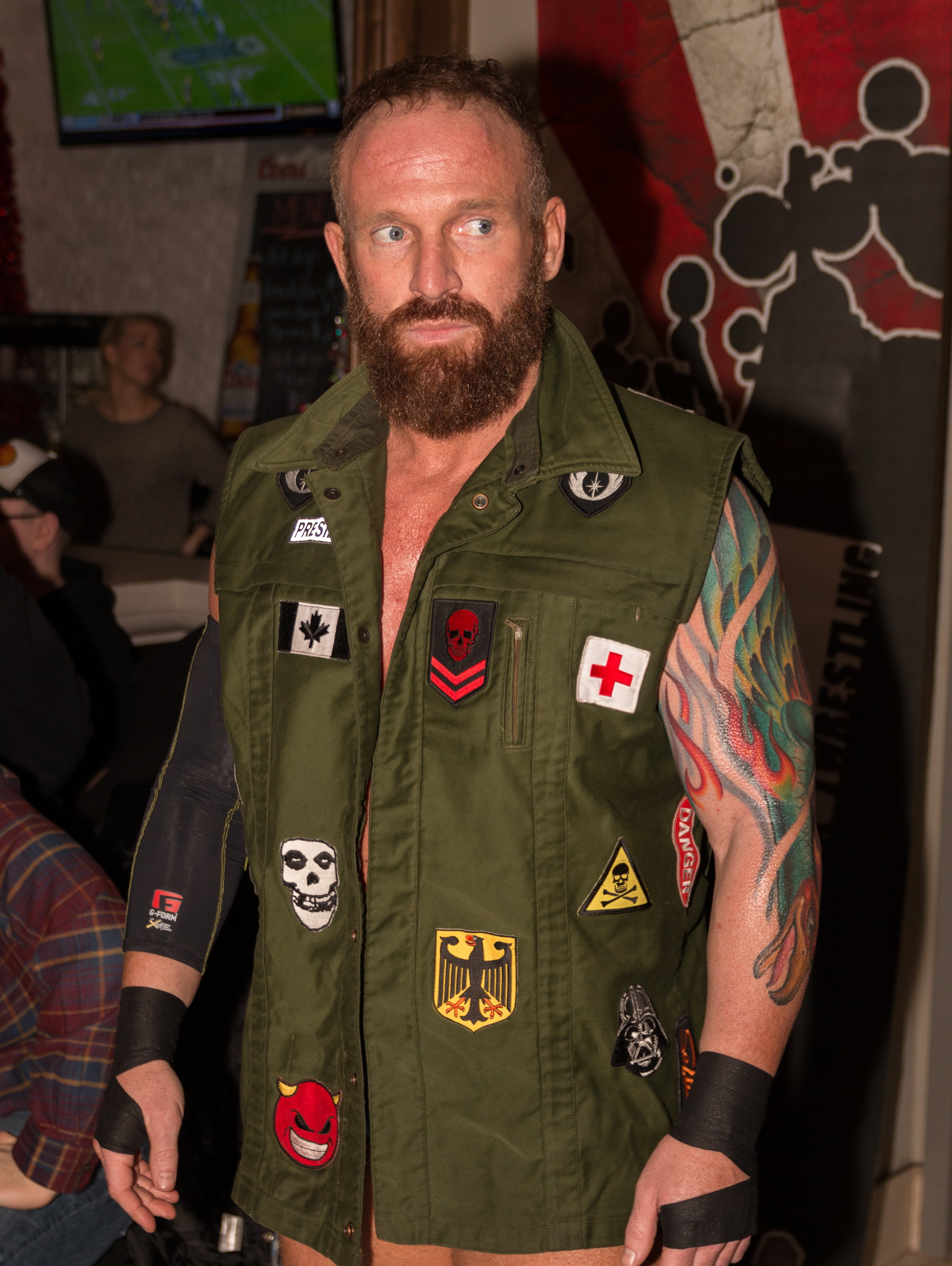 Pro wrestler Eric Young making his ring entrance at Alpha-1's One Crazy Night show